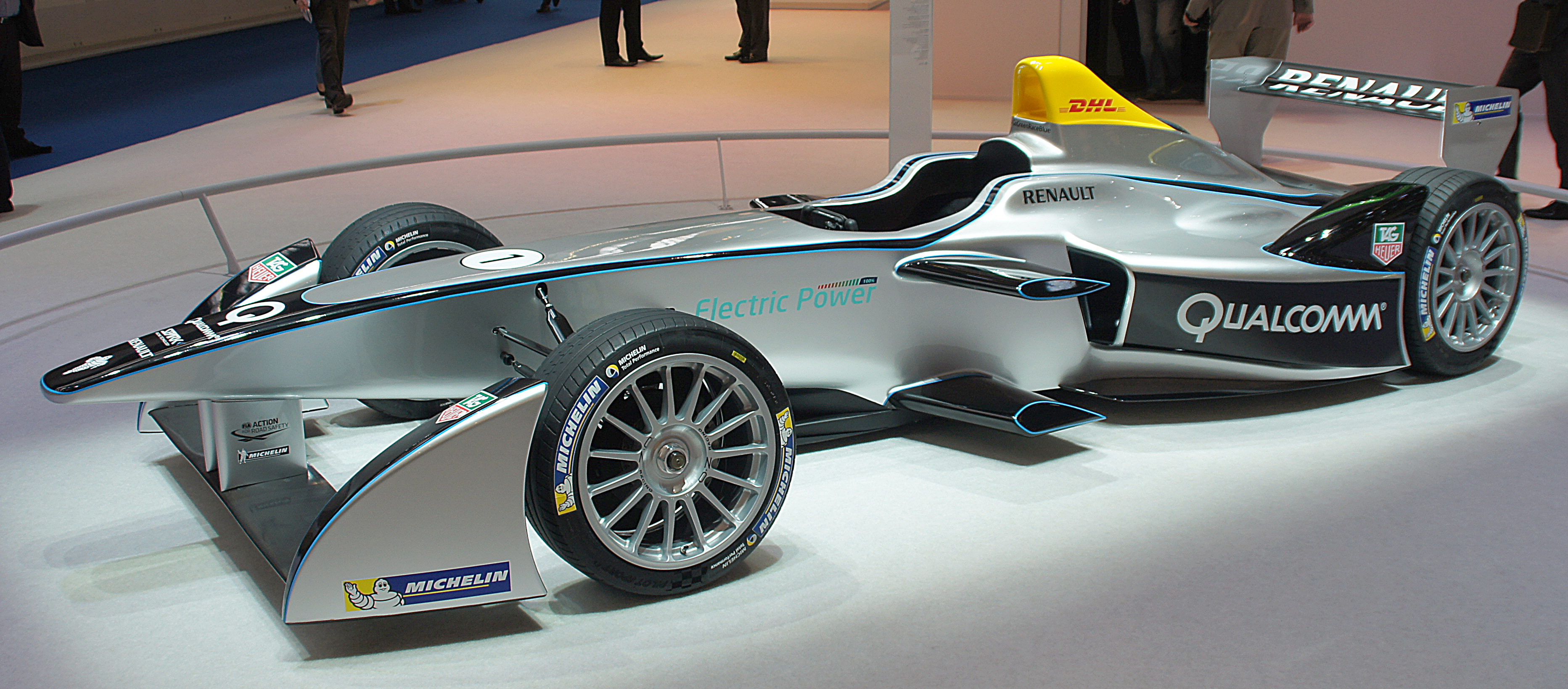 Spark Renault SRT_01 E (FIA Formula E), unveiled at Frankfurt Motor Show 2013.